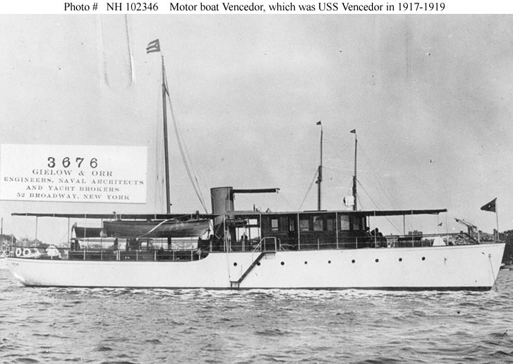 The motorboat Vencedor prior to her service as the United States Navy patrol vessel